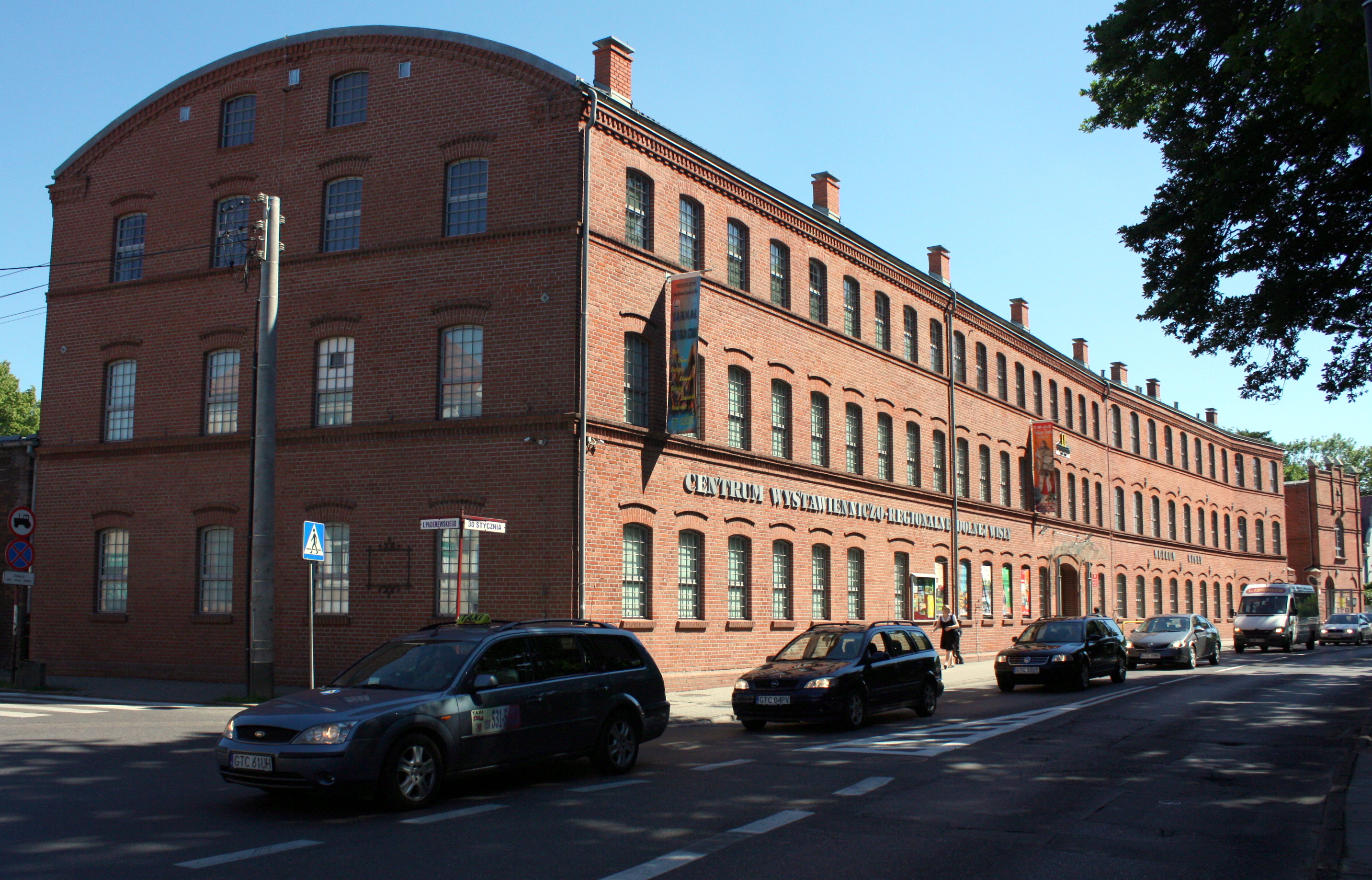 Museum of the Vistula in Tczew